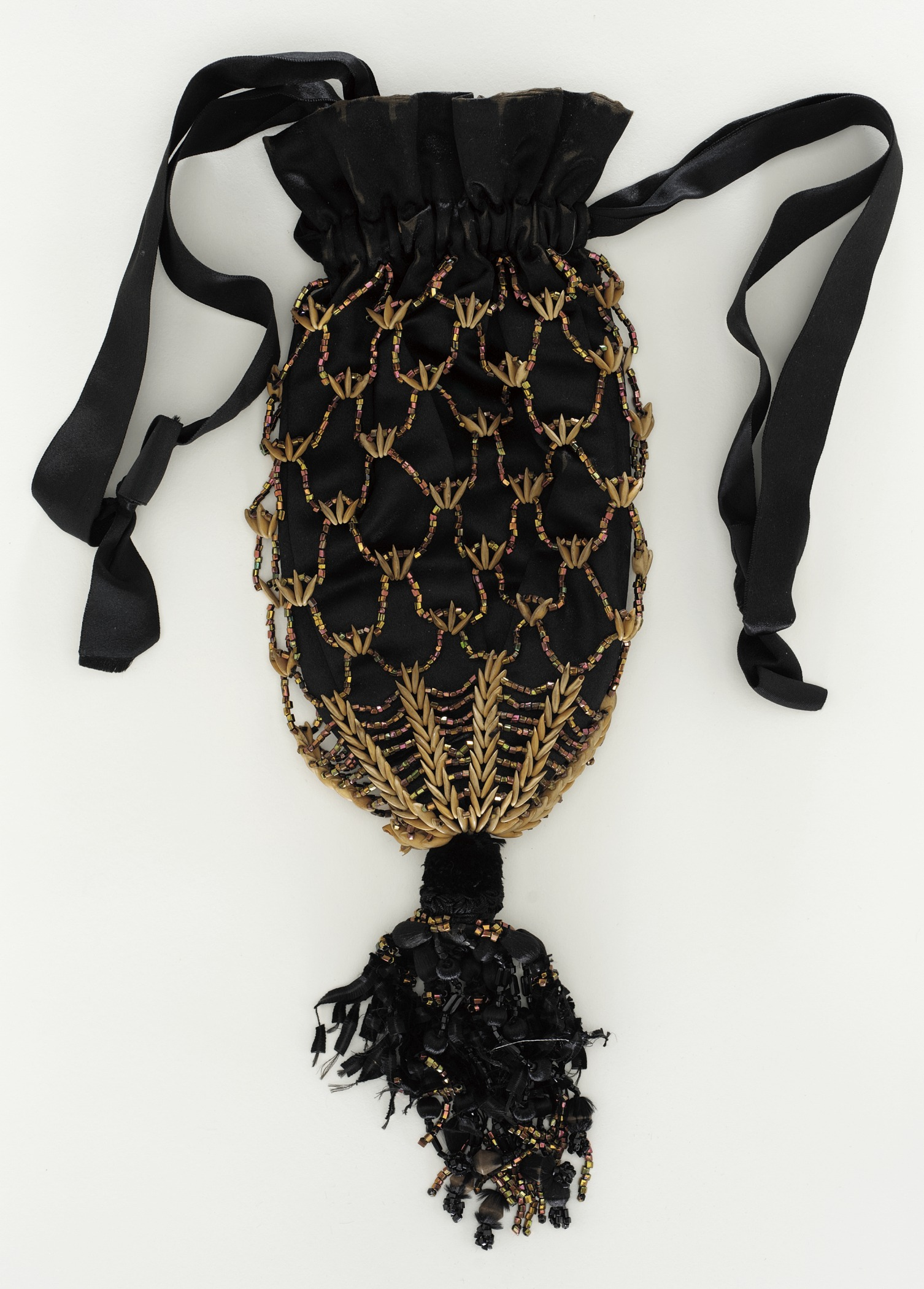 United States, circa 1860 Costumes; Accessories Bronze beads, silk satin, canaloupe seeds Gift of Mrs. Mary Y. Salazar (M.54.20.1) Costume and Textiles